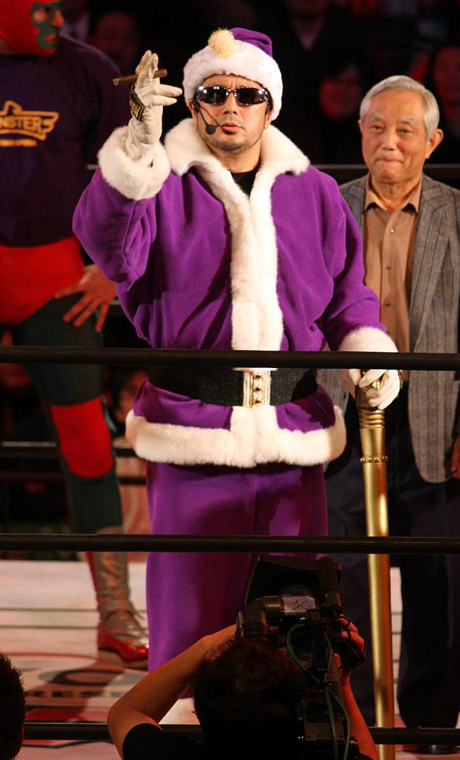 Nobuhiko Takada at the Hustle Xmas Special 2008 Part Two, in the Korakuen Hall.